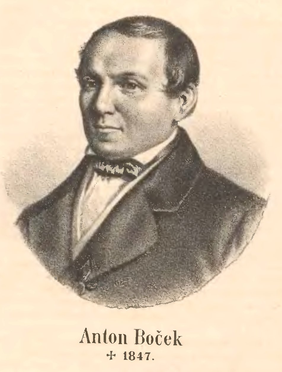 Portrait of Antonín Boček (1802-1847), Moravian archivist and historian.